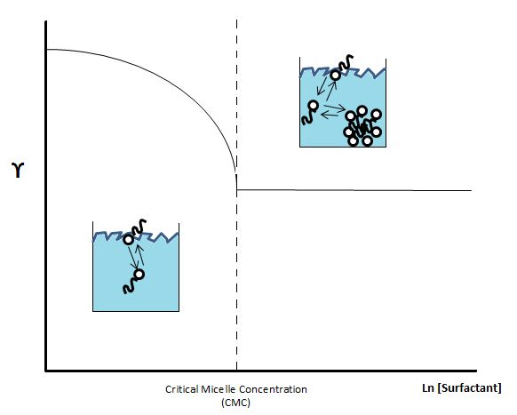 Graph showing the relationship between surface tension and the ln of the concentration of the surfactant, specifically the Critical Micelle Concentration (CMC).